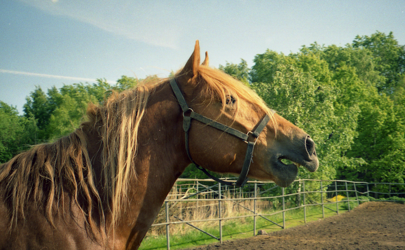 A Finnhorse stallion neighing at other horses in Vermo turnout.